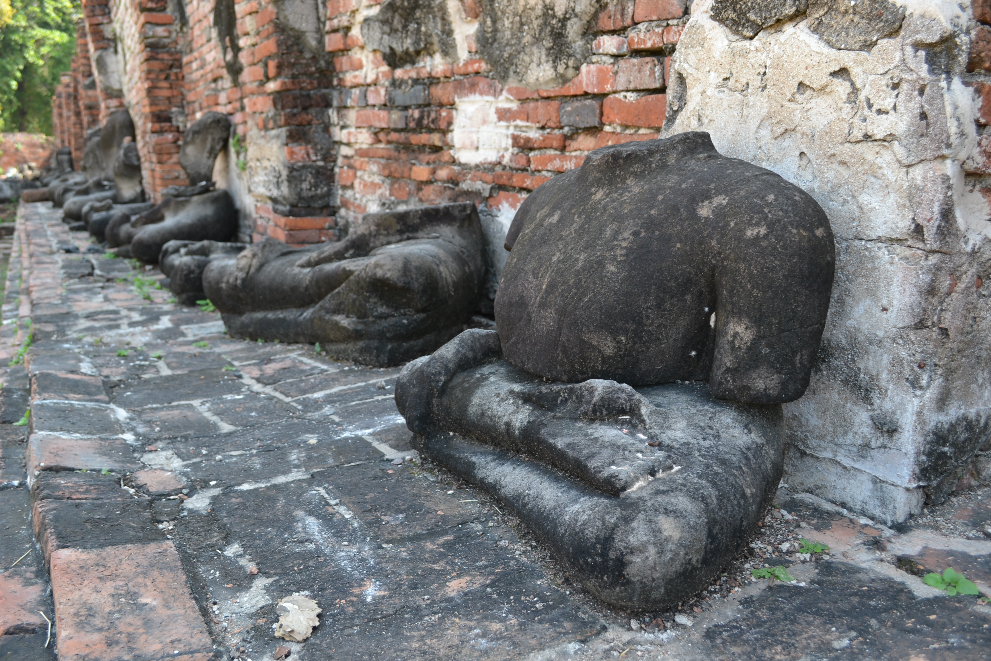 Statues of Buddha at Wat Mahathat in Ayutthaya, Thailand.